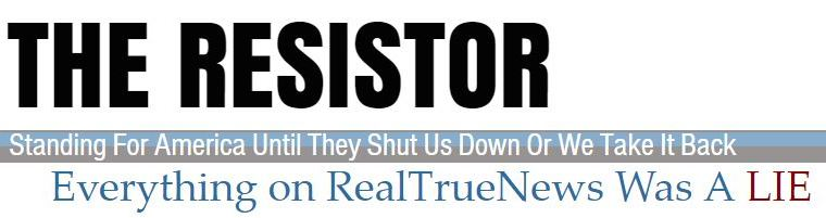 The home page of the satirical website realtruenews